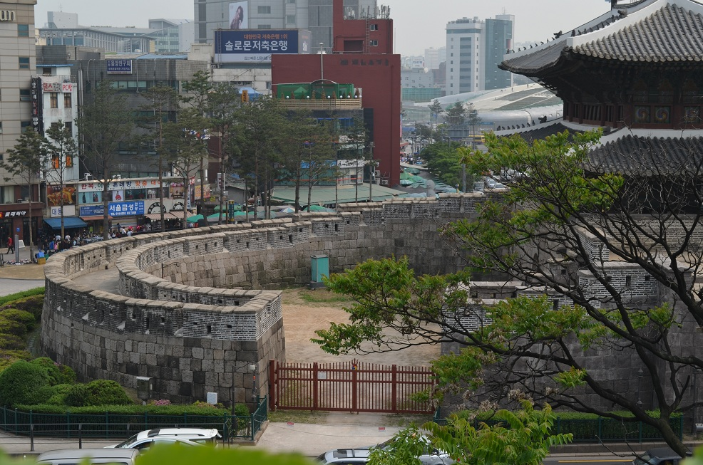 Heunginjimun Gate, also known as East Gate or Dongdaemun, Seoul, South Korea. Photographed May 12, 2012.